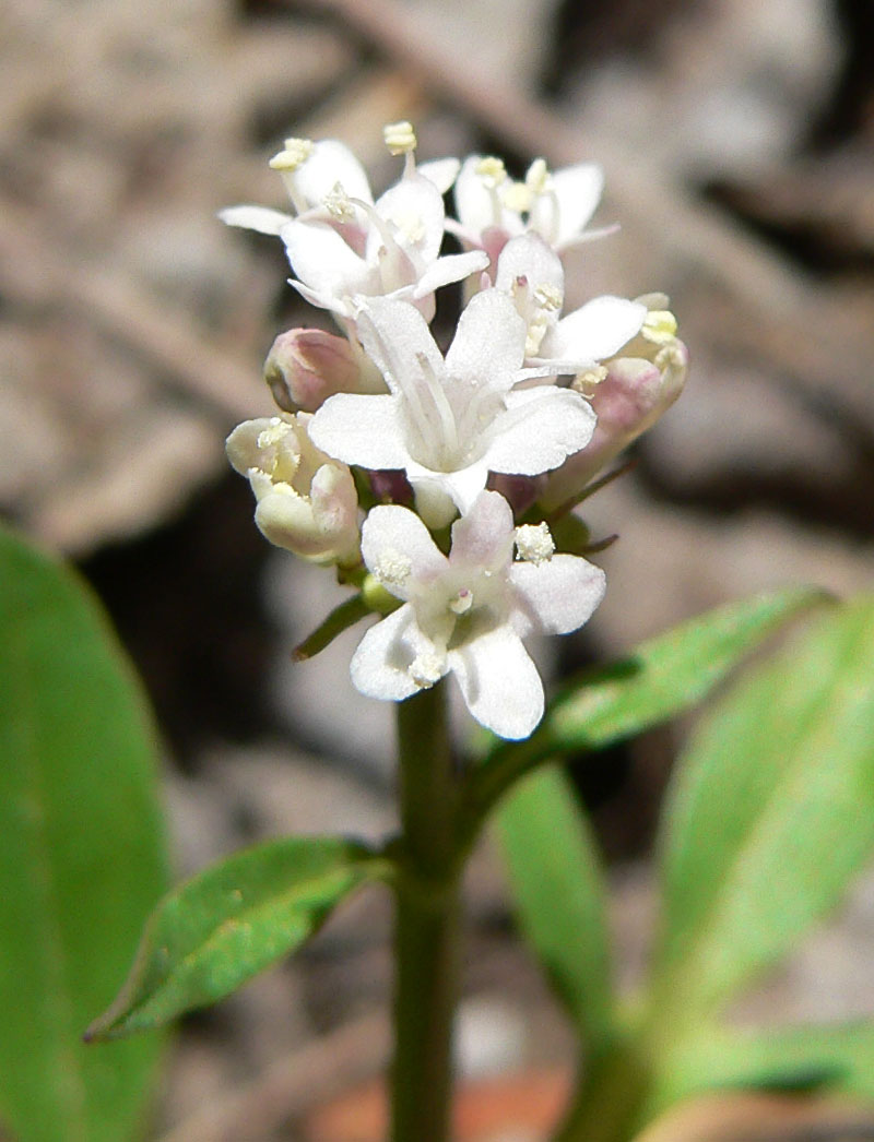 Valeriana acutiloba var. pubicarpa in Lee Canyon alongside the Bristlecone Trail near the trailhead, Spring Mountains, southern Nevada (elev. about 2700 m)